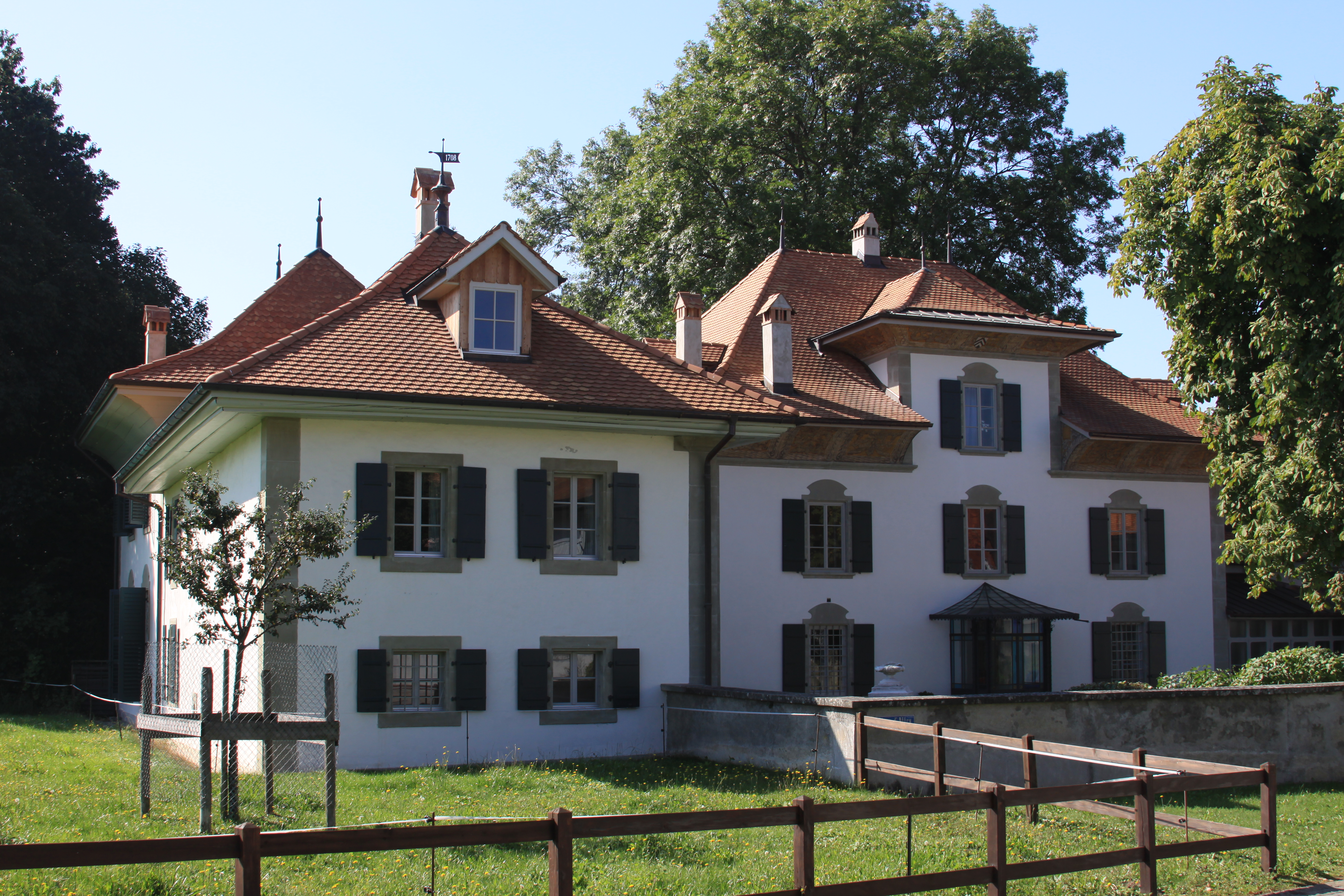 Manor house d'Affry and Studio of the Sculptress Marcello, Place d'Affry 7, Givisiez, Switzerland